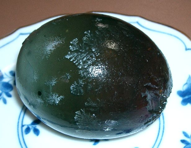 Century egg